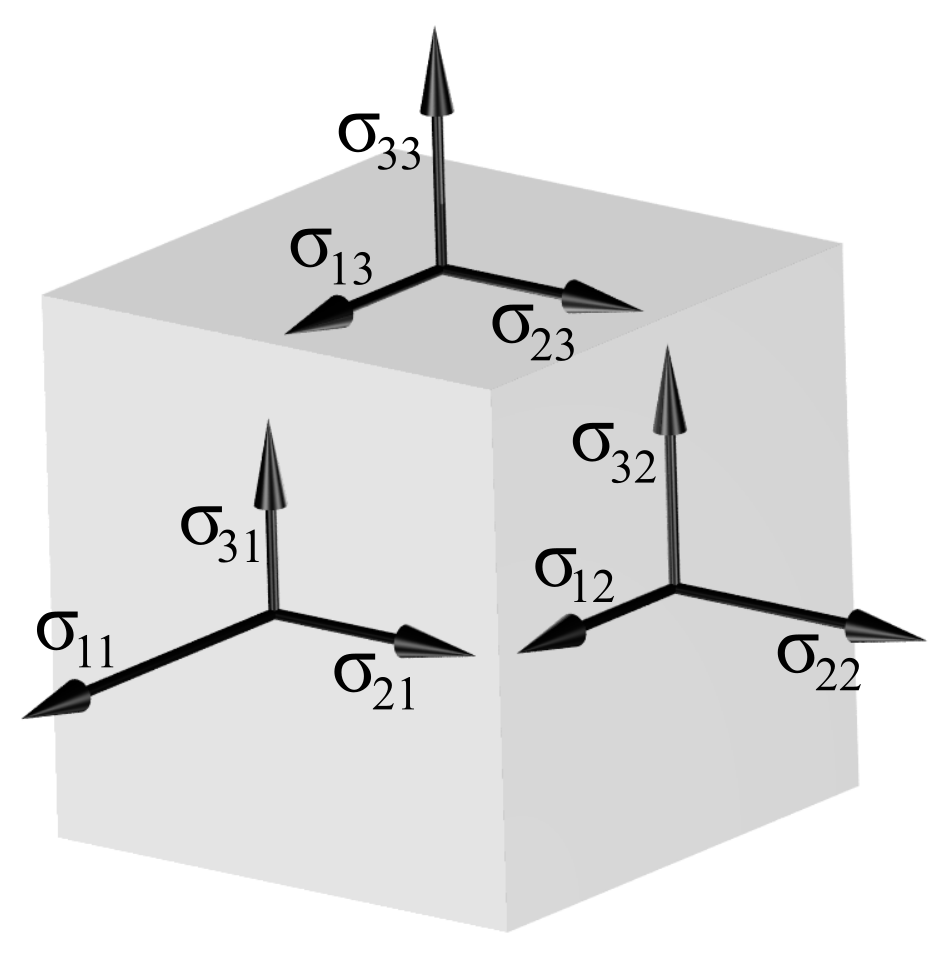 Tensor tensions